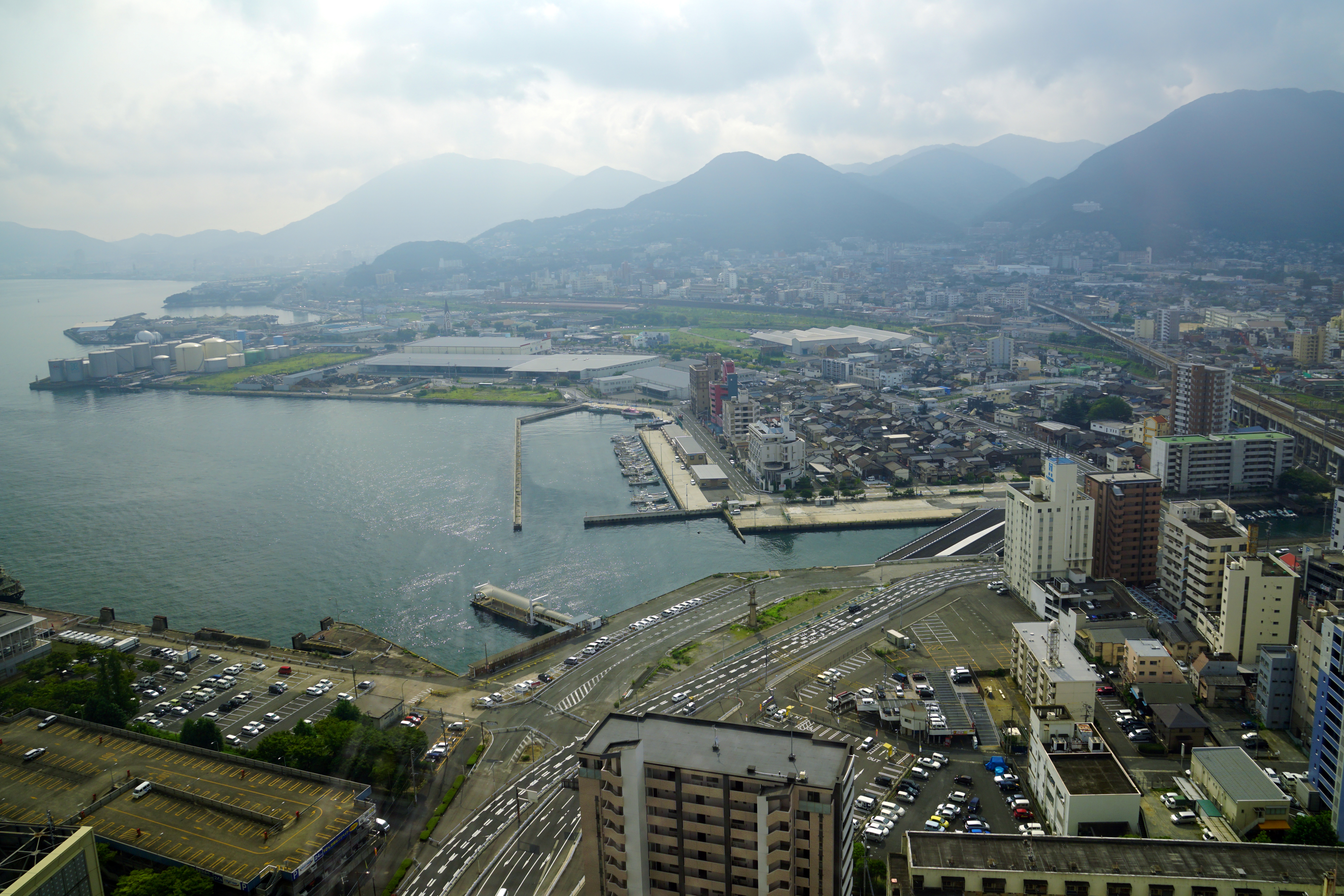 Kokura Port view from RIHGA Royal Hotel Kokura in Kitakyushu, Fukuoka prefecture, Japan.